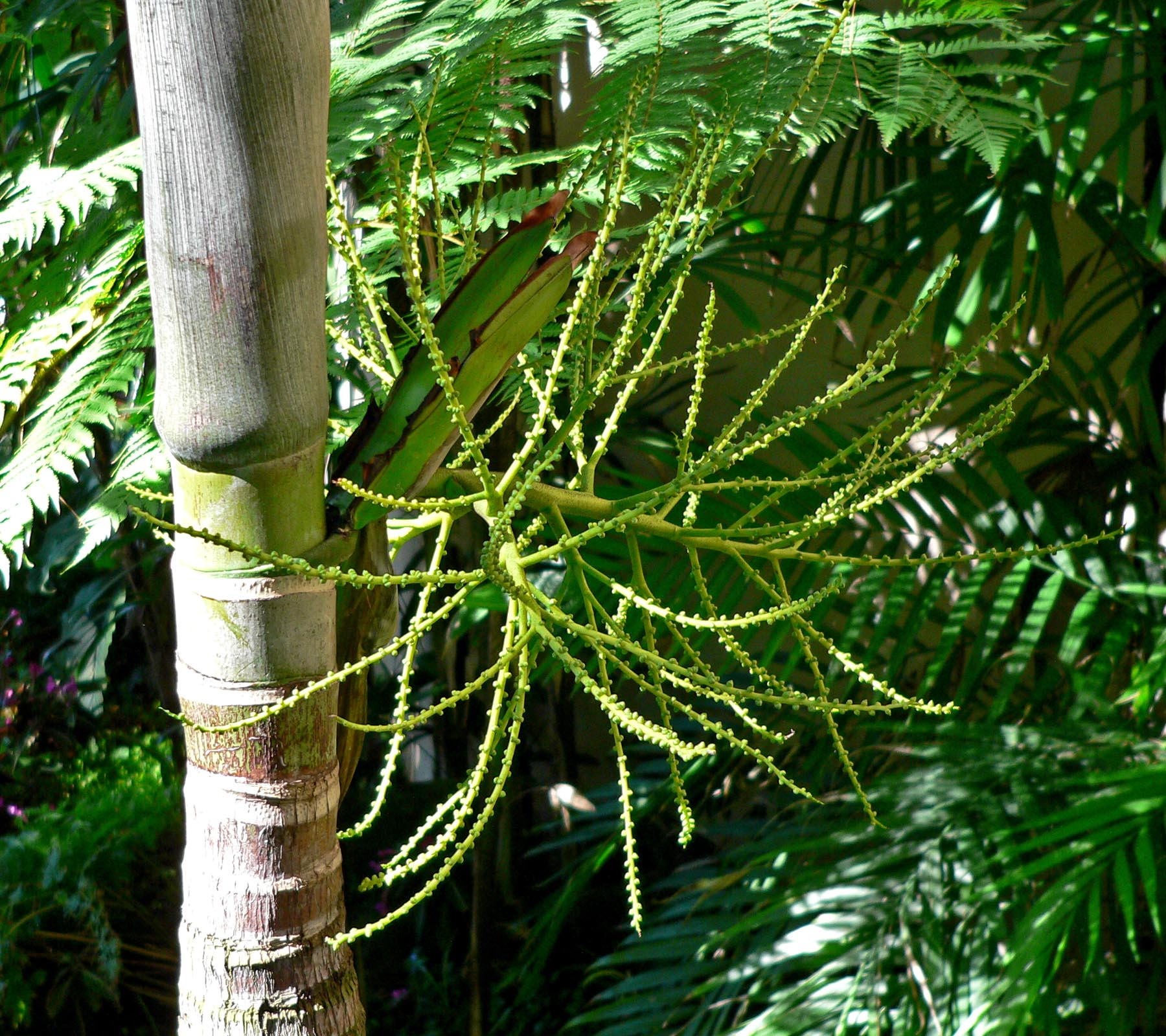 Photo of Ptychosperma elegans at Balboa Park